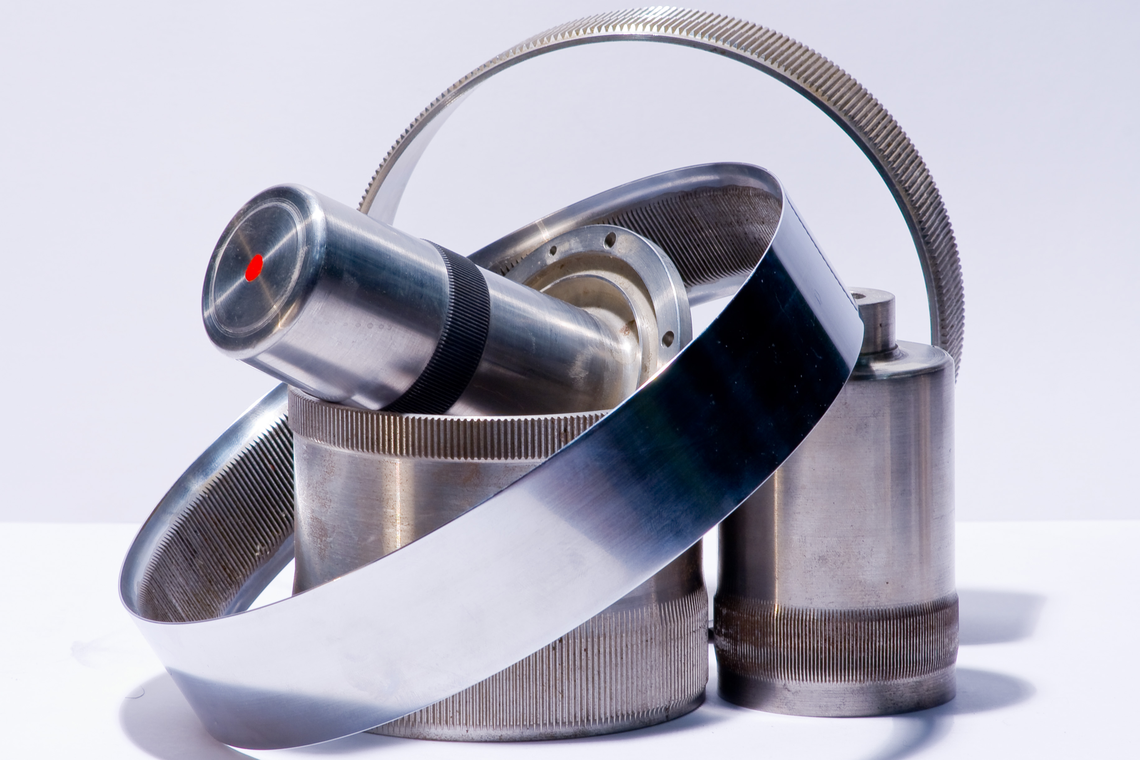 Details of a strain-wave gearing - the elastic wheels.